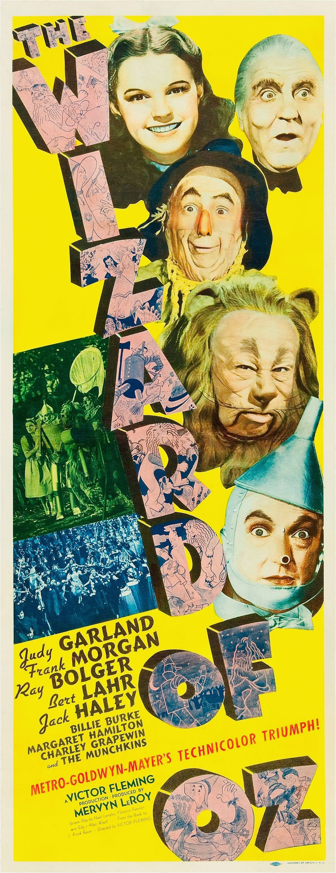 The Wizard of Oz (MGM, 1939). Insert Poster (14" X 36").